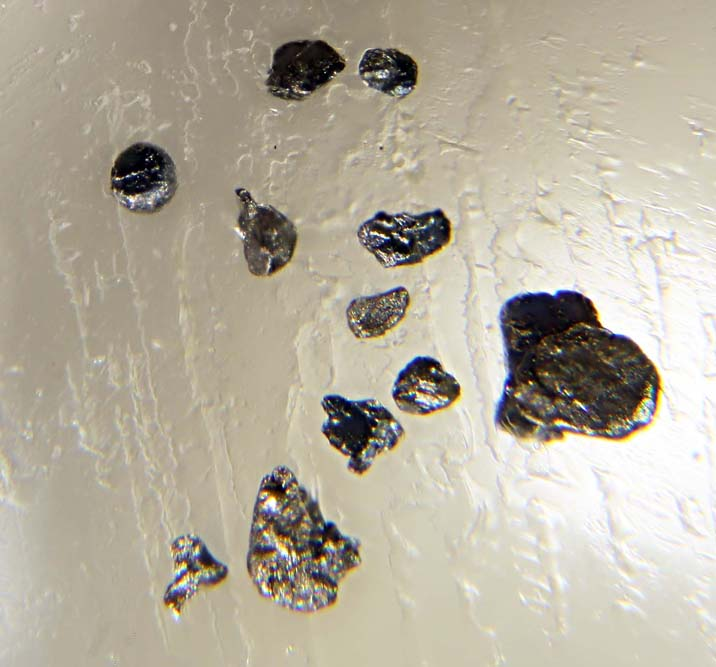 A lot of native iridium nuggets from a locality in California (Crescent City, California, United States of America), the biggest of them is about 1 mm long. Some of the nuggets show crystal faces, which is very unusual for a nugget, since they're usually rounded.